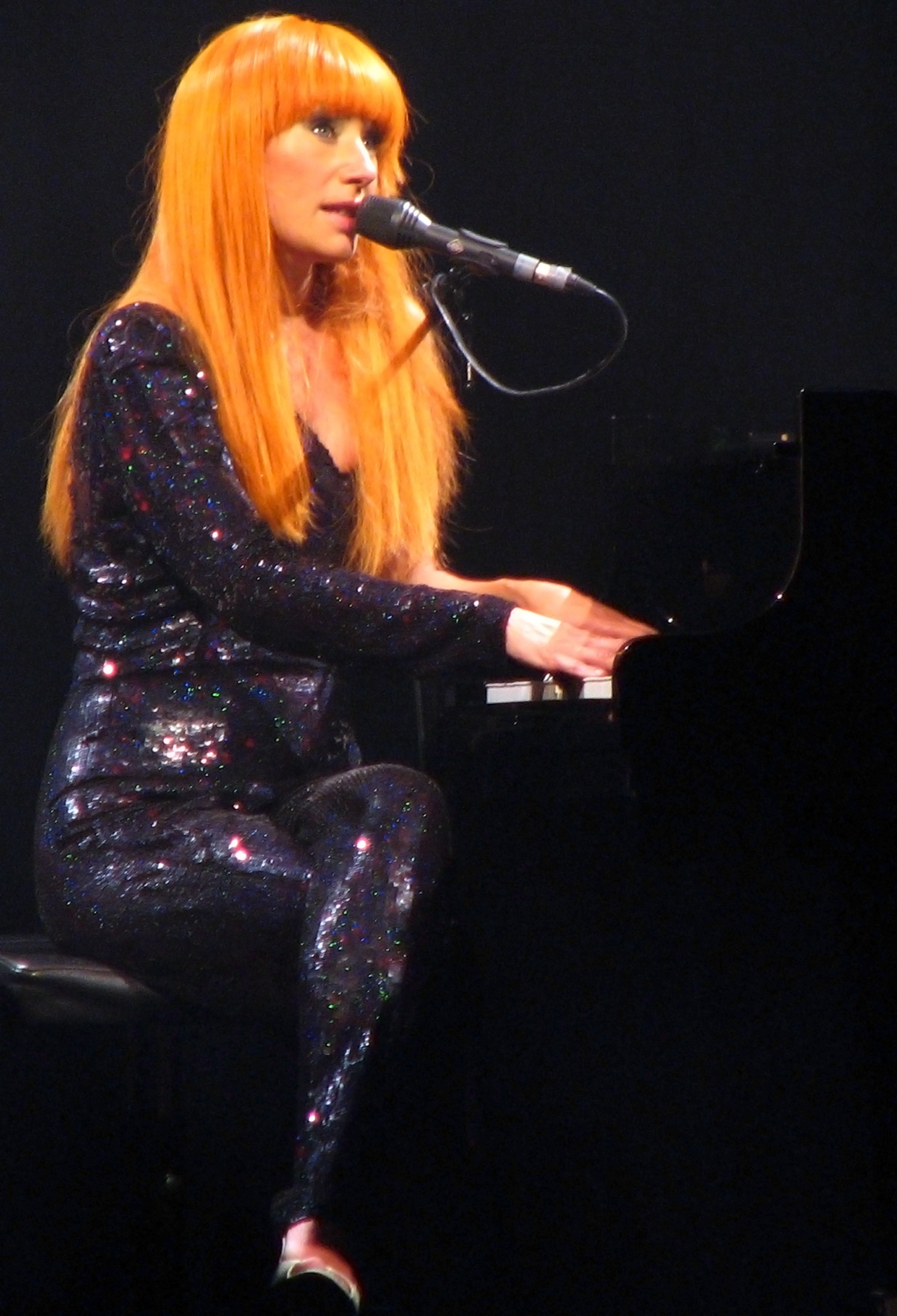 Tori Amos in concert at Madison Square Garden, New York, New York, USA.